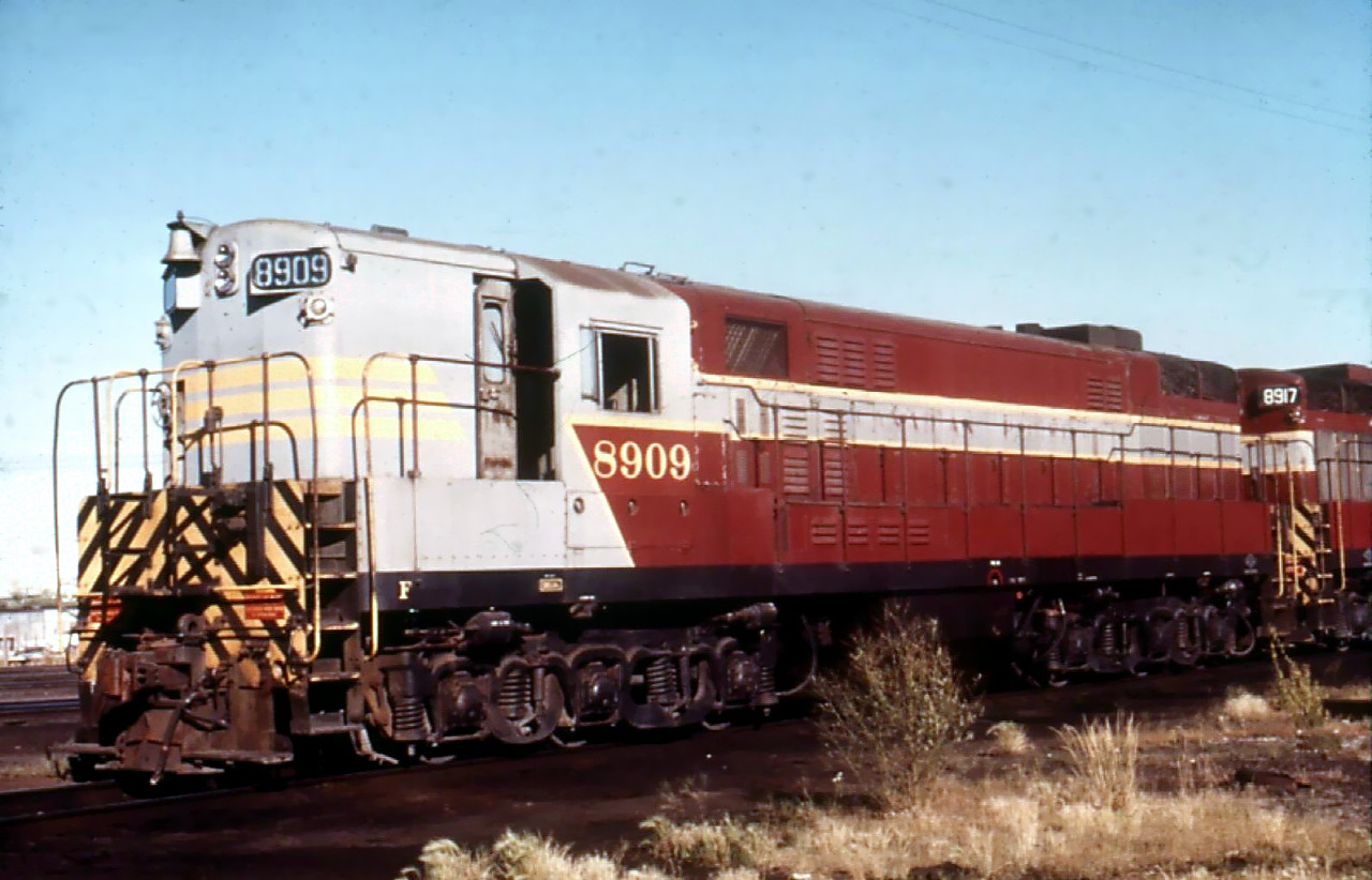 Canadian Pacific Railway #8909, a Canadian Locomotive Company H-24-66 Train Master. Photo from the collection of Paul Charland and released by him into the Public Domain.